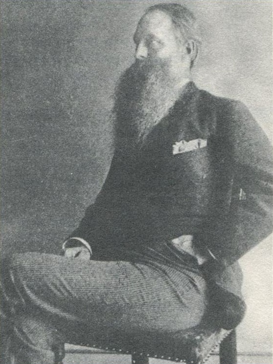 Raphael Pumpelly (1837-1923)